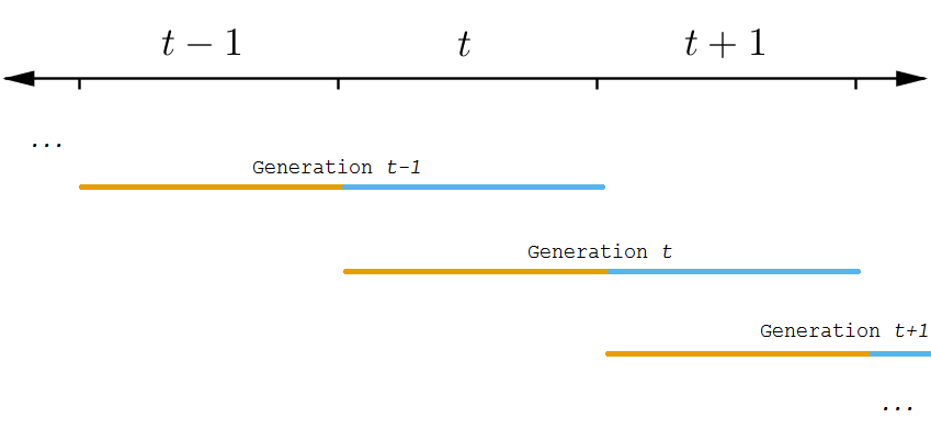 Illustration of the aspect of "overlapping" in OLG models.